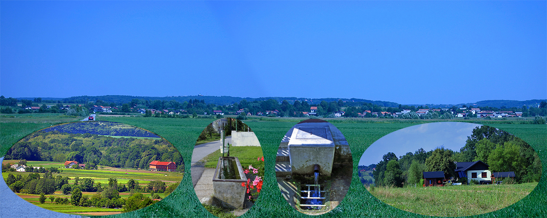 Razglednica Gorice. Picture postcard from Gorica. Die Ansichtskarte von Gorica.